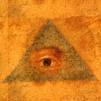 The ALL seeing Eye of God